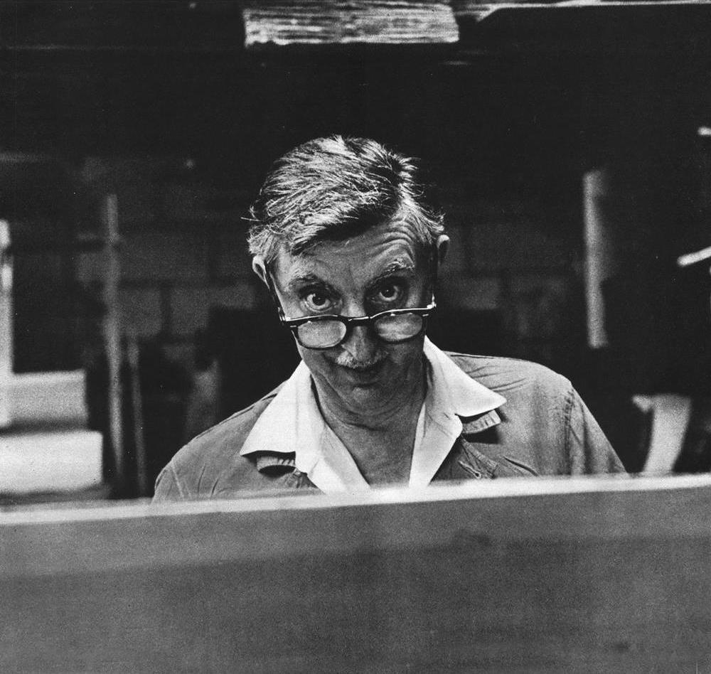 A portrait of Giorgio Santelli from Esquire's February 1961 story on Salle Santelli, a fencing group